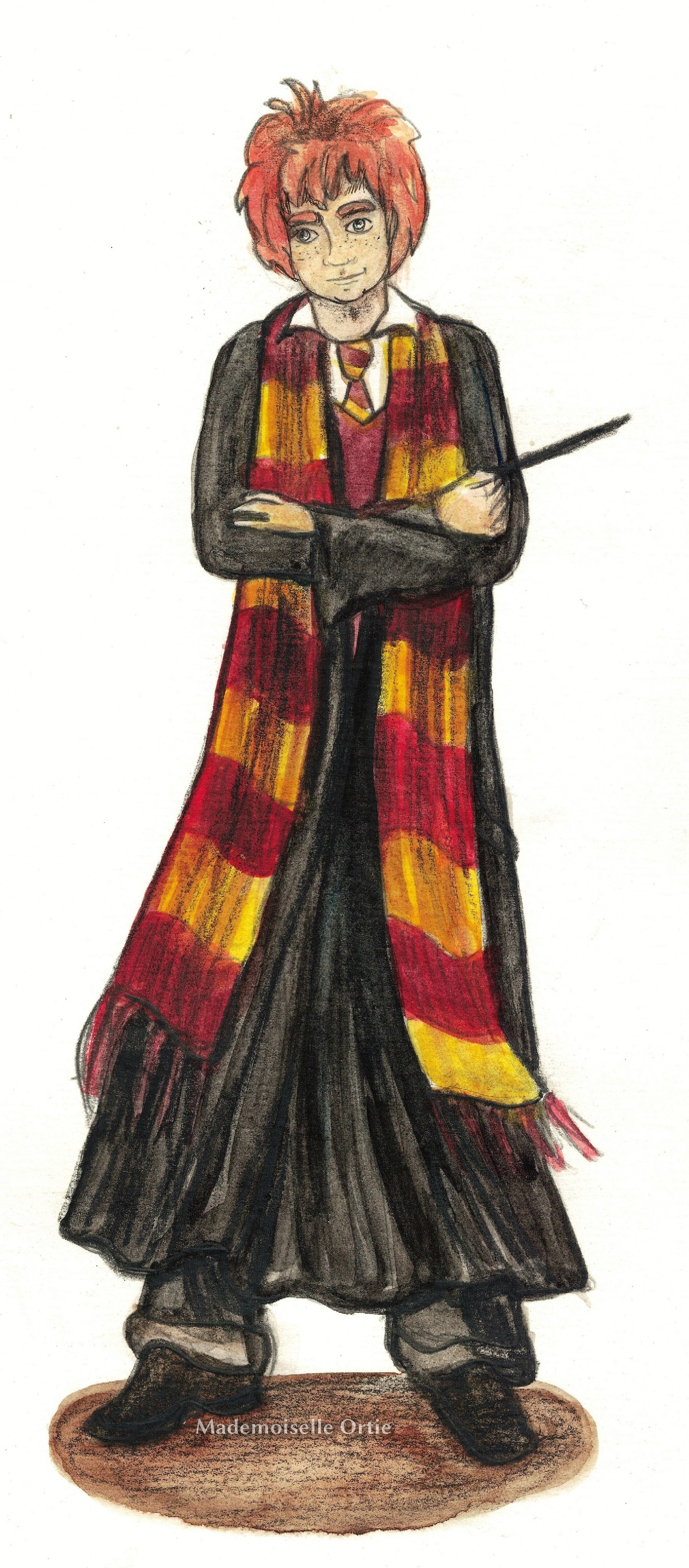 Fan art reprensenting the character Ron Weasley from the Harry Potter saga made with watercolours and charcoal by Mademoiselle Ortie aka Elodie Tihange. This drawing is not affected by any copyright infringement. See the discussion that previously decided on its conservation.